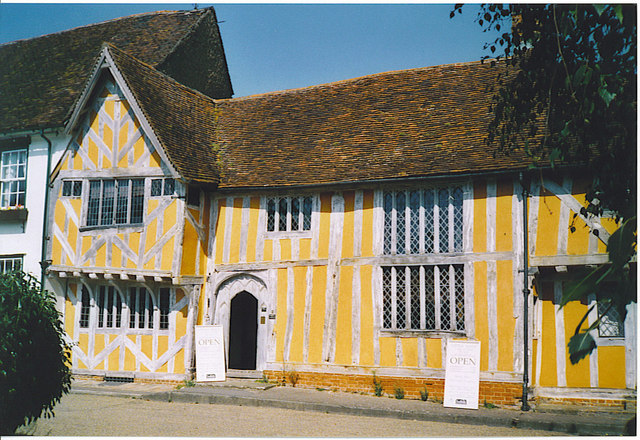 Little Hall, Market place, Lavenham, Suffolk. 15th-century, believed to have been built as the wool hall of a prominent local clothier.